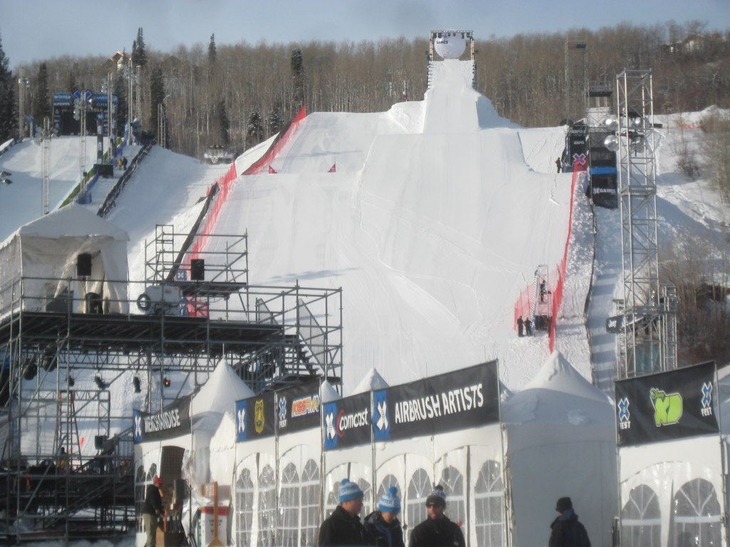 Licensed under a creative commons share-alike license. Use freely, but give credit Philip Nelson, Live Streaming Expert and link to